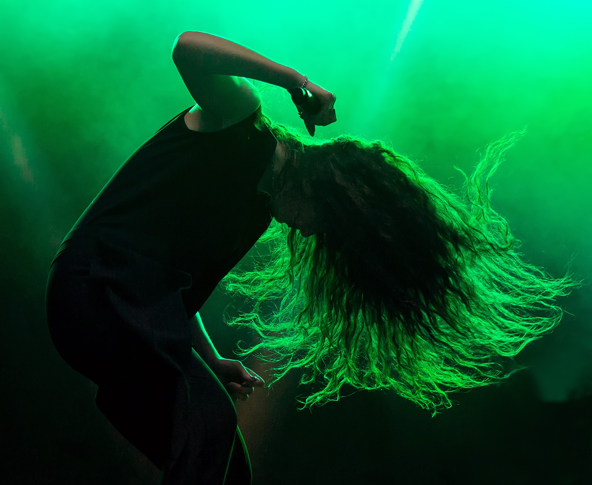 Lorde performing at Austin City Limits Music Festival (ACL) in Austin, Texas, 2014-10-12.